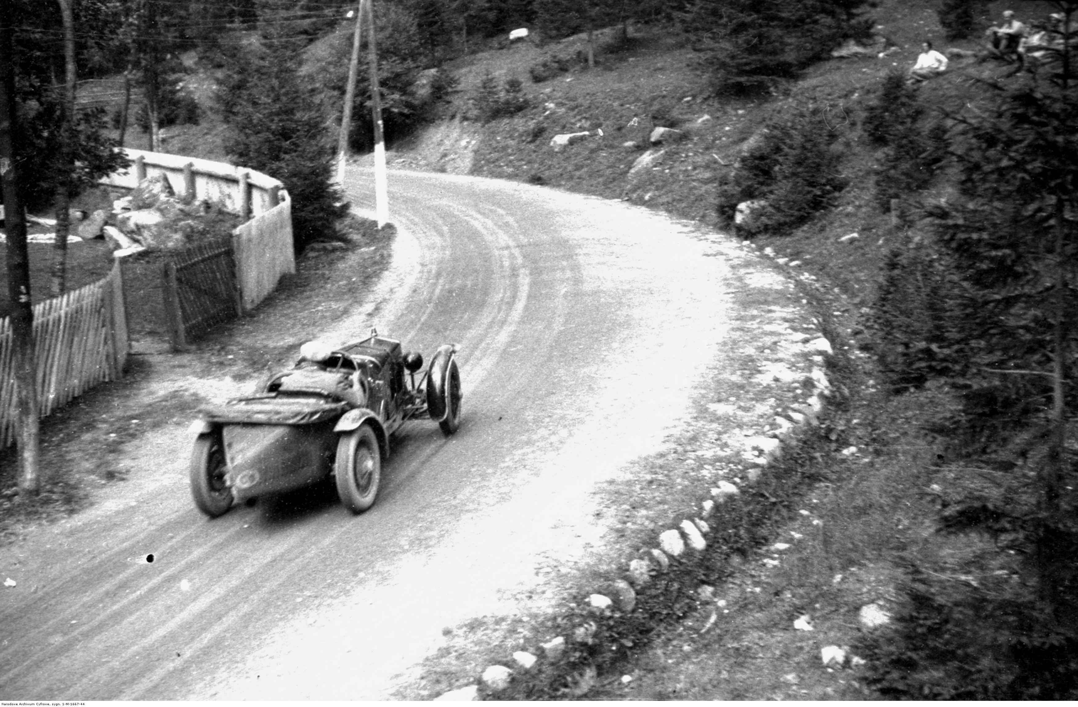 4th International Tatra Rally, Poland. Adolf Szczyżycki in Wikov car.